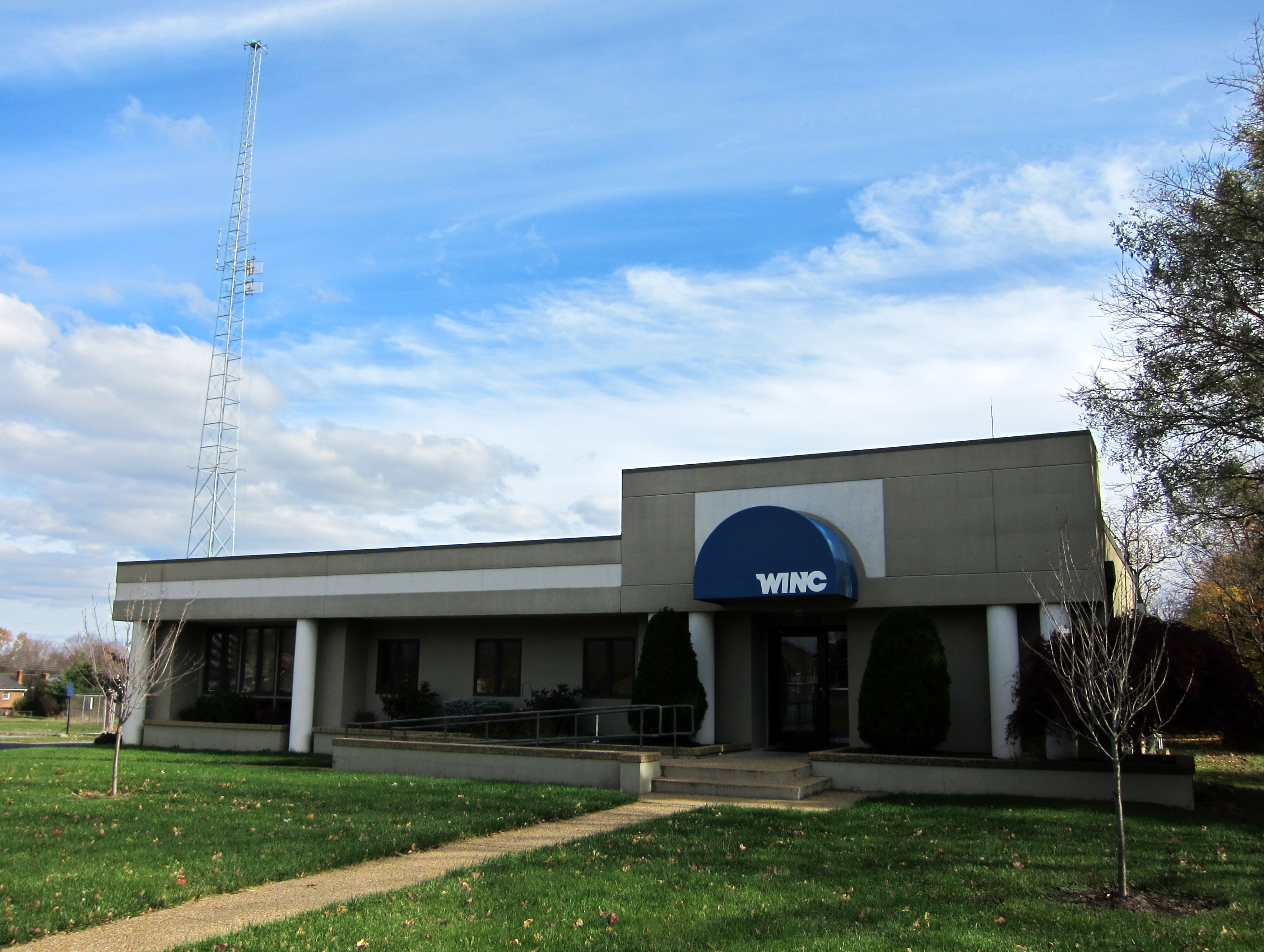 The studios for WINC (AM) and its sister stations in Winchester, Virginia.